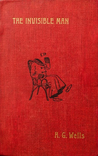 First edition cover of The Invisible Man by H. G. Wells (London: Pearson, 1897).